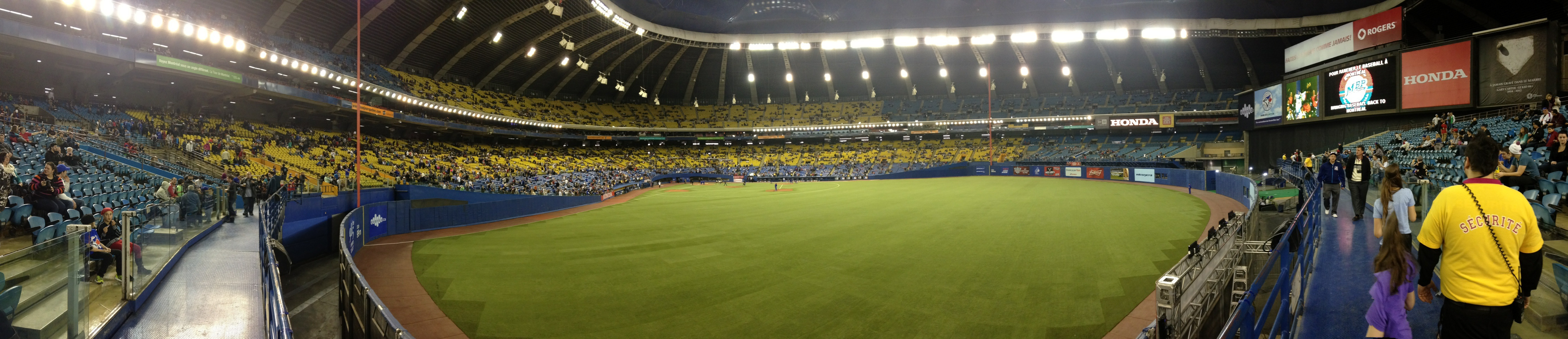 Toronto Blue Jays vs. New York Mets in Montreal in 2014